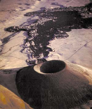 SP Crater, in the San Francisco Volcanic Field, Arizona, is an excellent example of a cinder cone and associated lava flow. This flow extends 4 miles (6.4 km) from the cone and is only about 100 feet (30 m) thick.